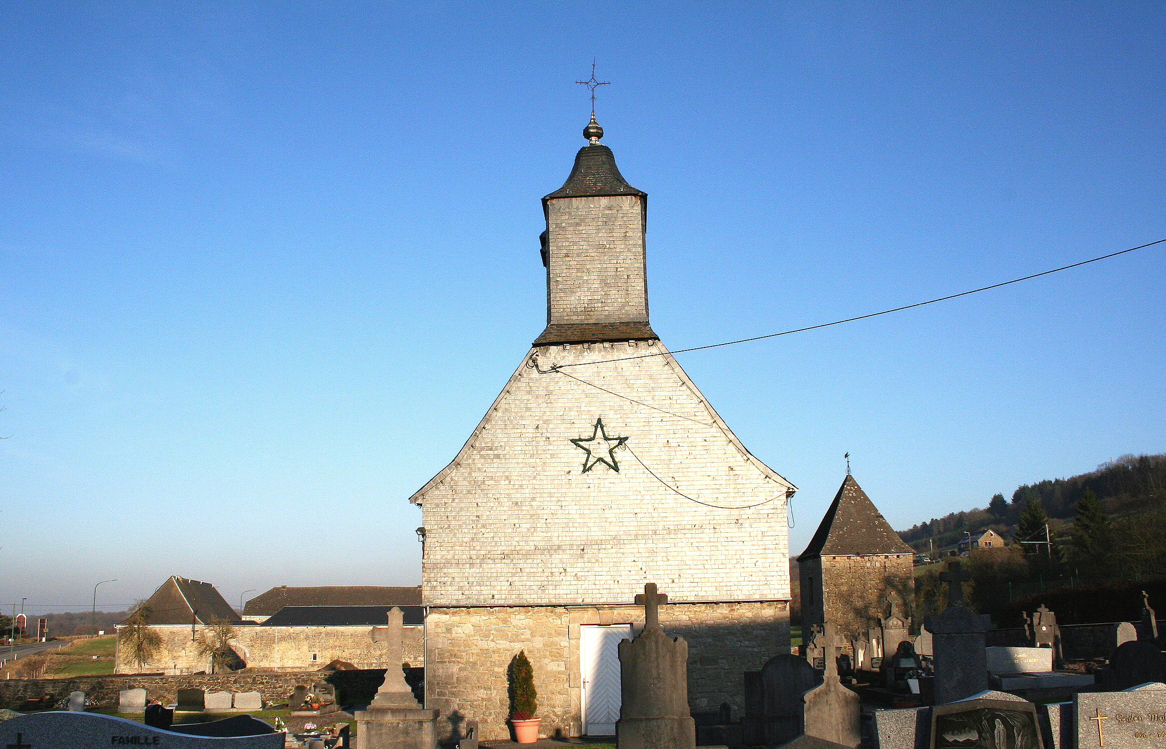 Bourdon (Belgium), the St. Remaclus' chapel.